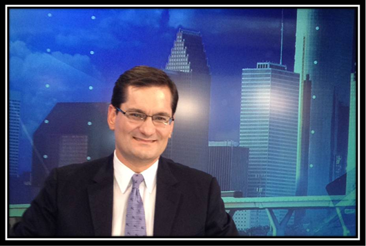 Congressional candidate James Cargas during a 2012 interview with Houston television channel KHOU.